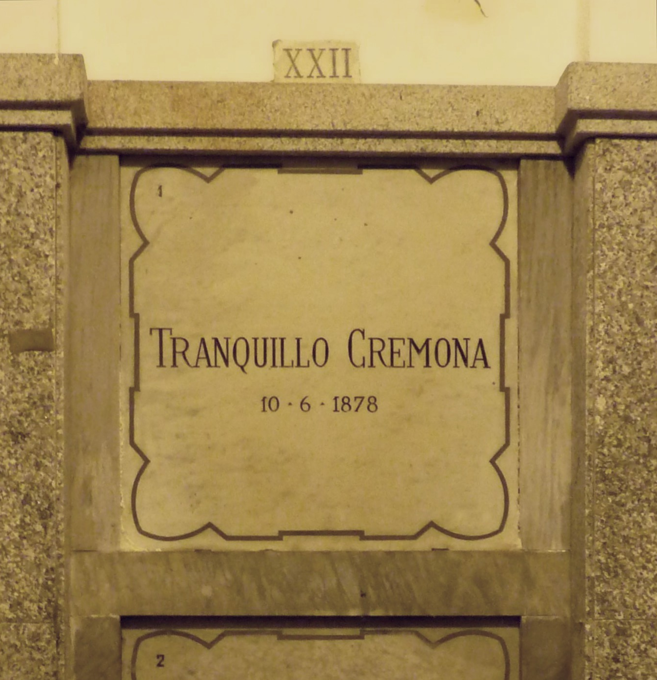 The grave of Italian painter Tranquillo Cremona at the Monumental Cemetery of Milan, Italy.